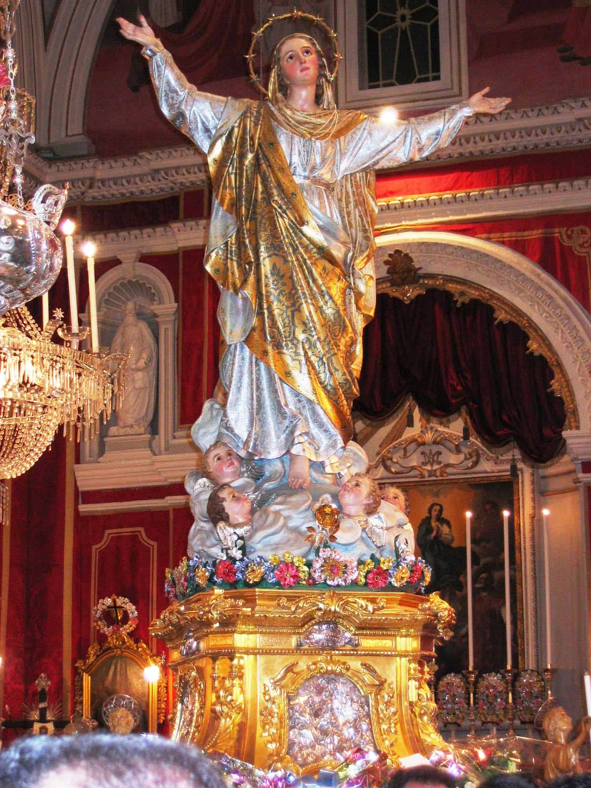 Attard - Saint Mary's Statue